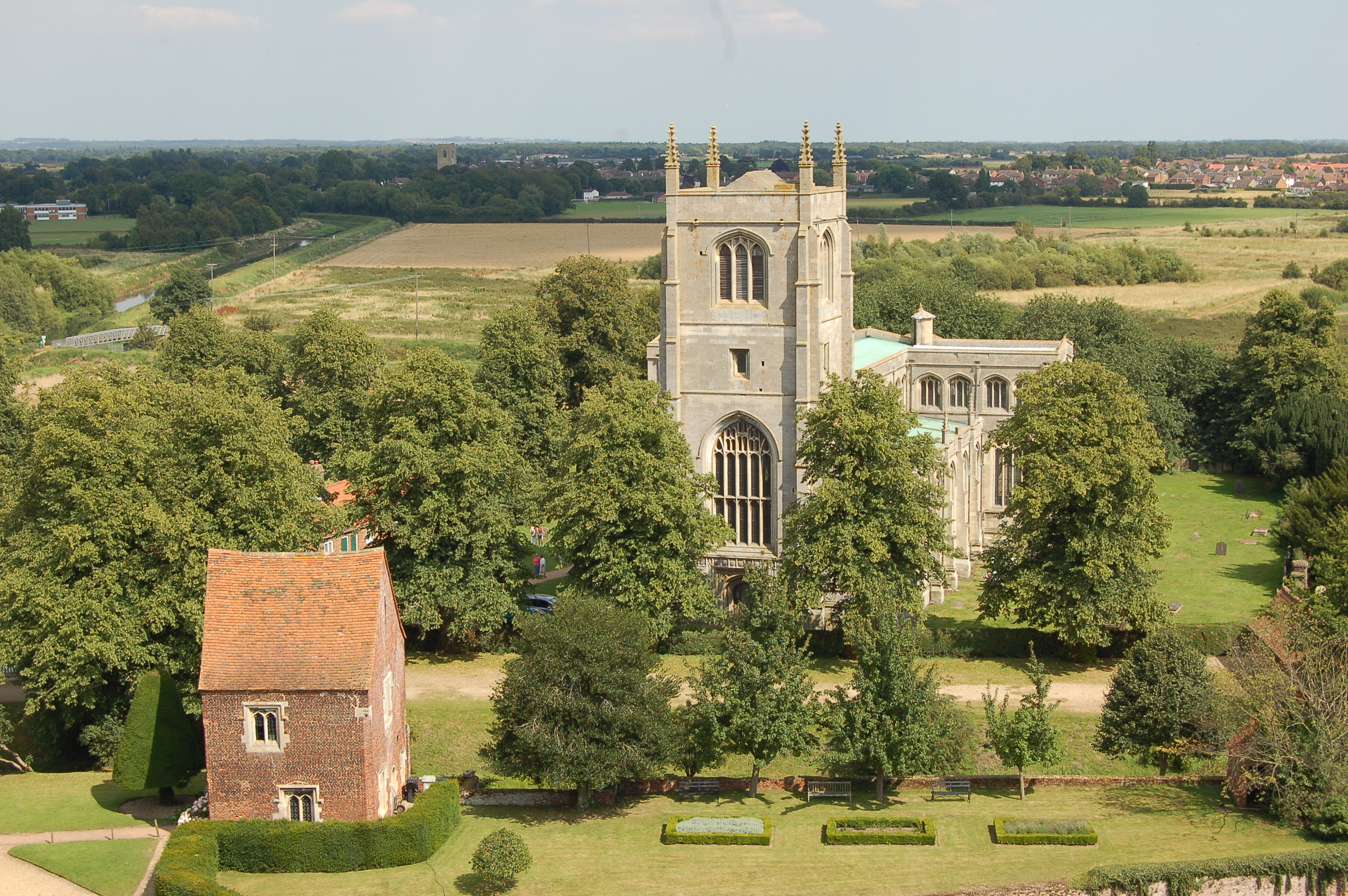 Photograph of Holy Trinity Church in Tattershall, Lincolnshire.